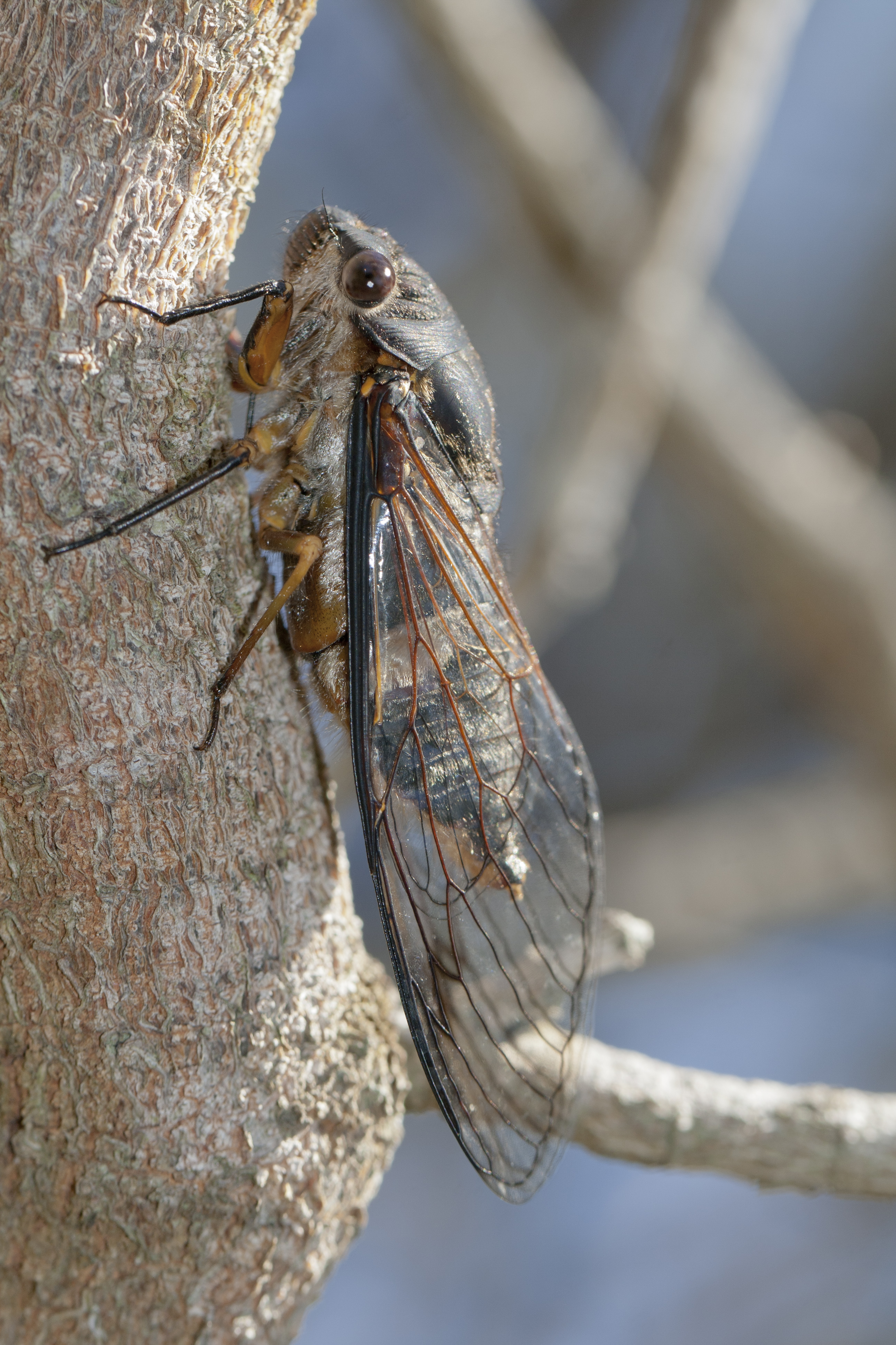 Psaltoda plaga (Black Prince cicadas) near Bawley Point, New South Wales.